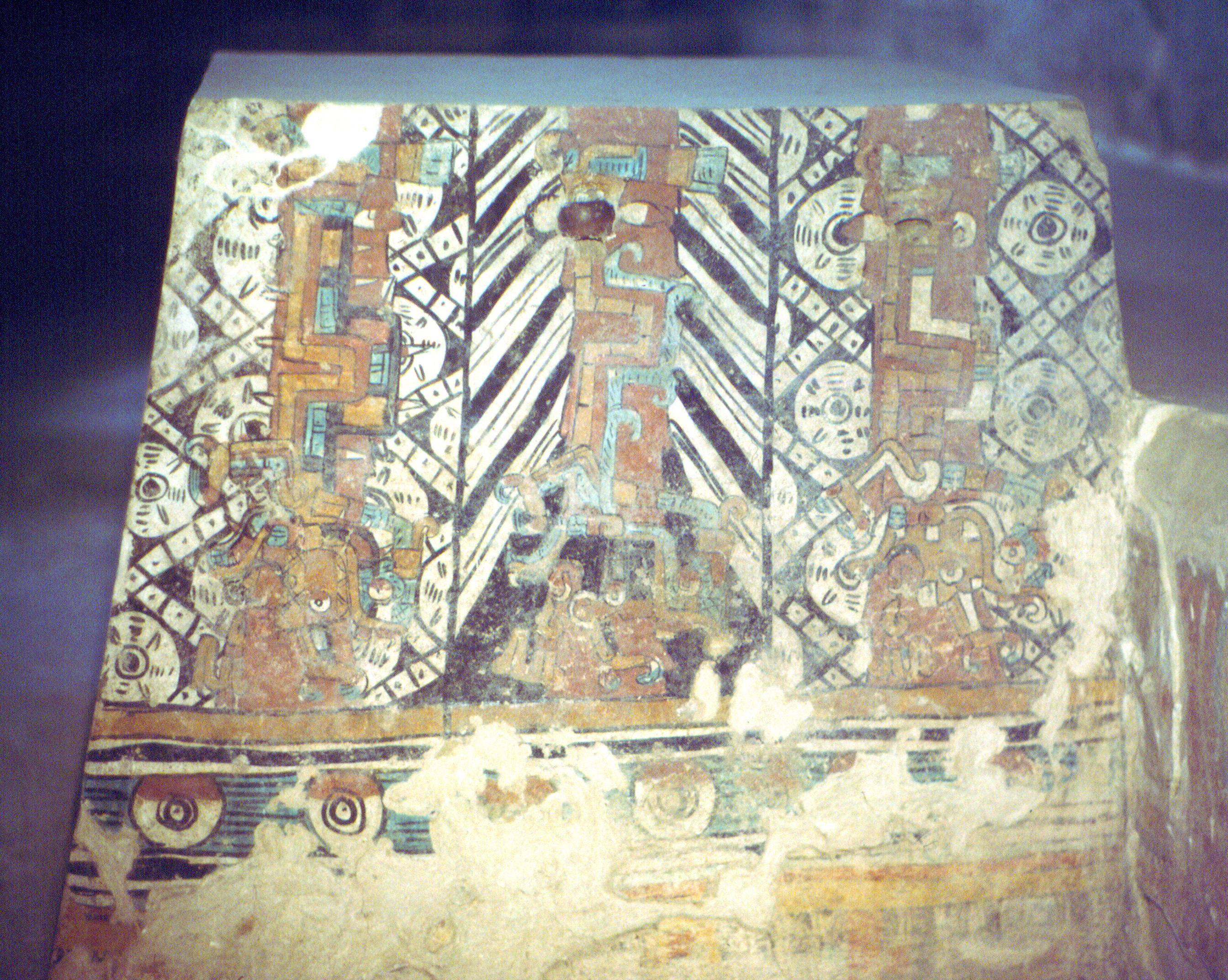 Murals on altar in Mesoamerican codex style. From the Ocotelulco altepetl, Tlaxcala, Mexico